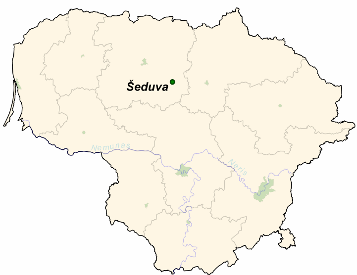 Šeduva on the map of Lithuania